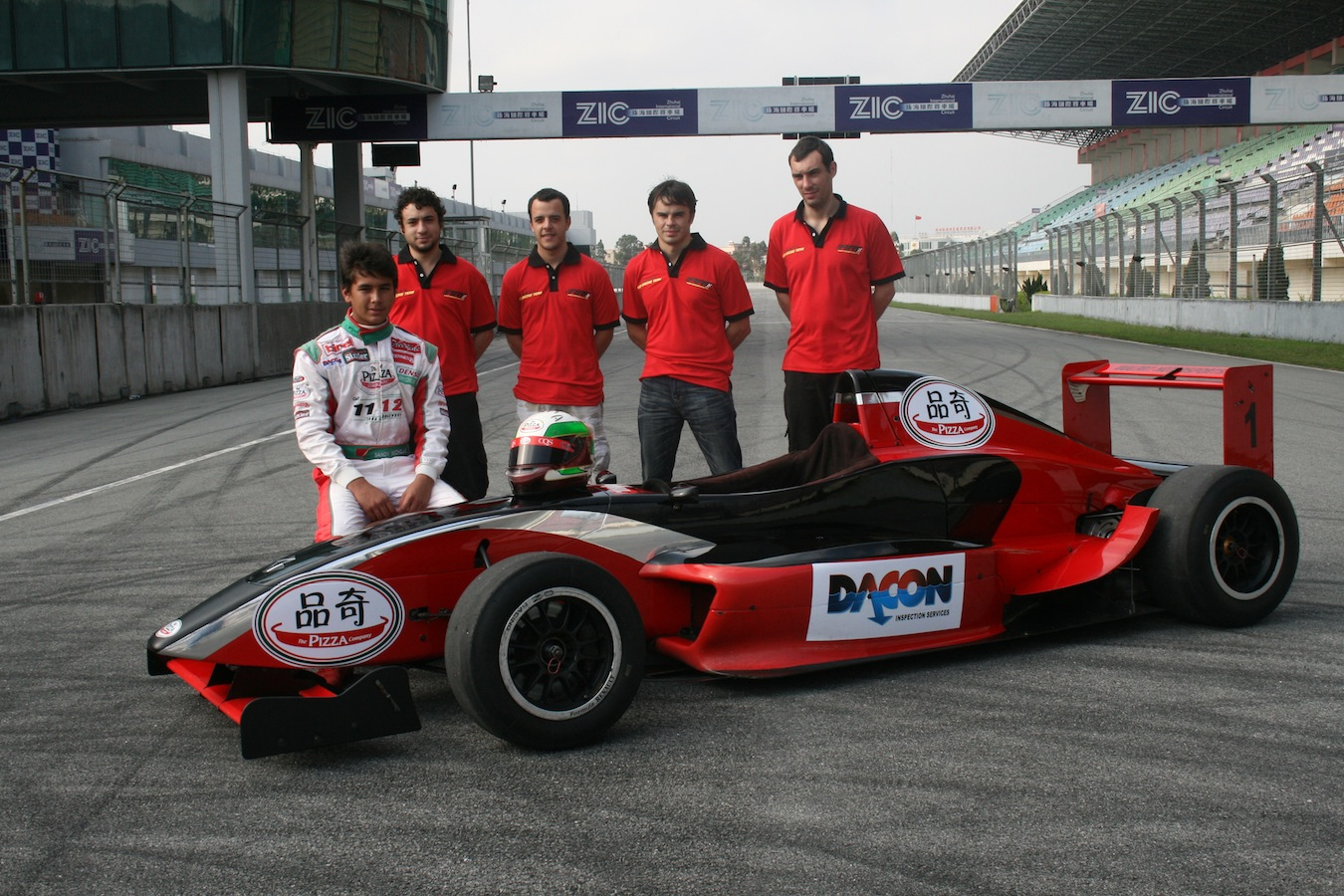 ART Management